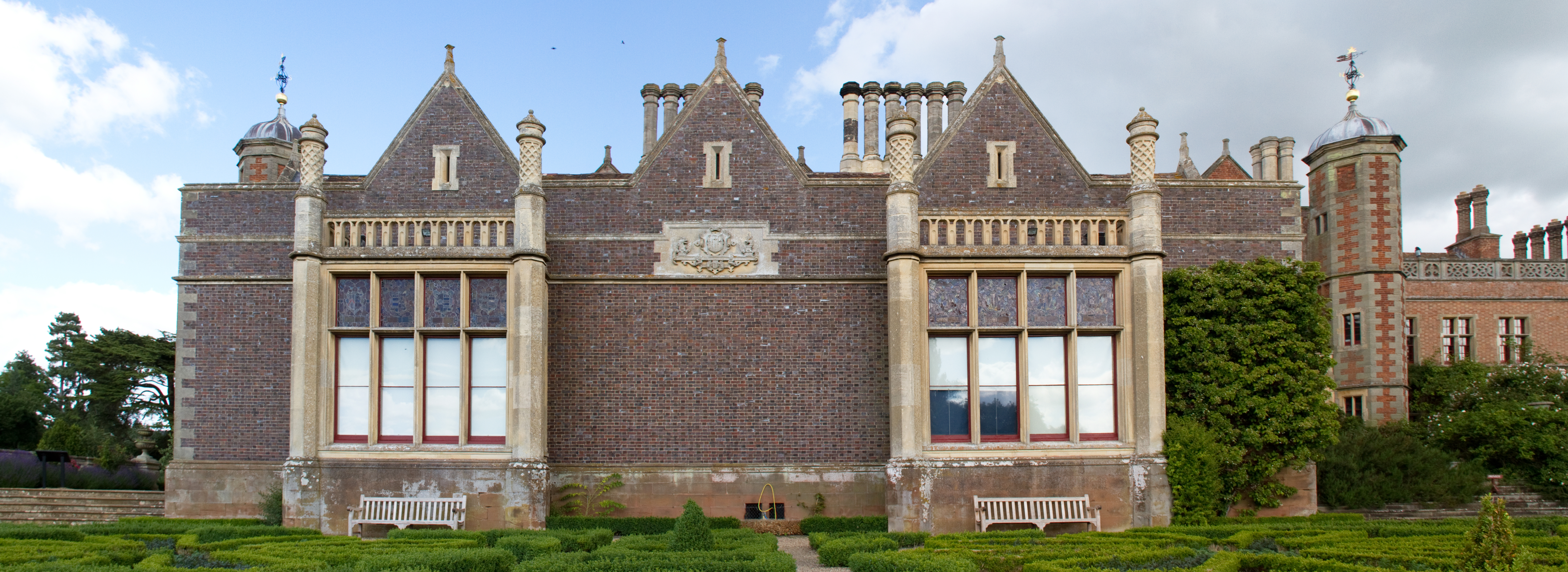 Built in 1558 and extended during the 19th Century